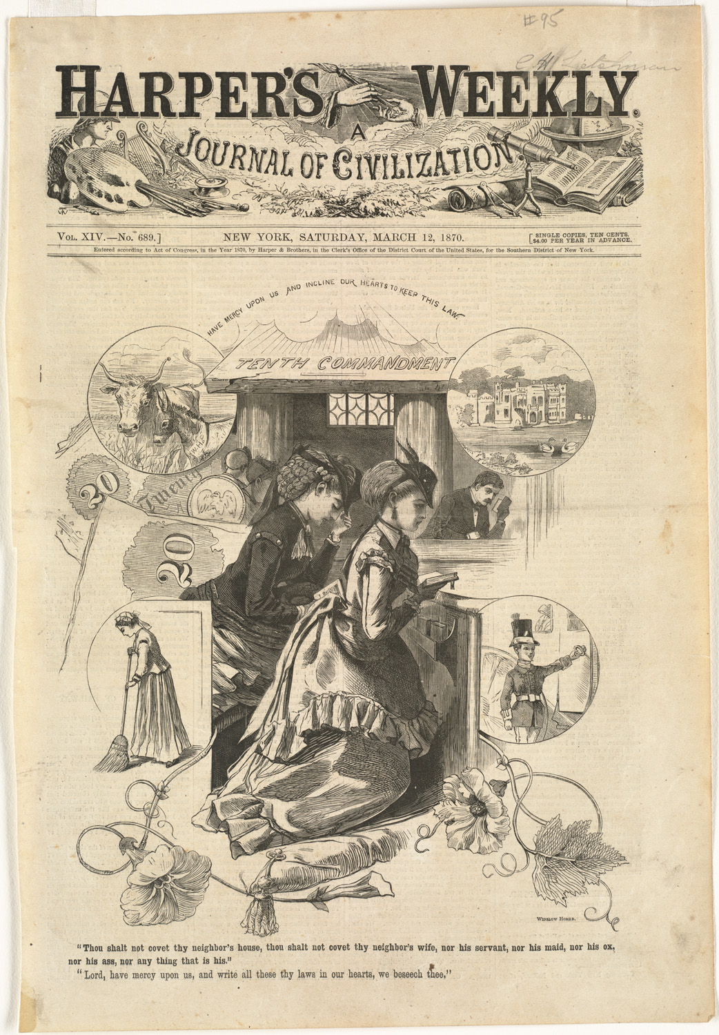 File name: 10_09_000095 Title: Tenth Commandment Creator/Contributor: Homer, Winslow, 1836-1910 (artist) Date issued: 1870-03-12 Physical description: 1 print : wood engraving Genre: Wood engravings; Periodical illustrations Notes: Published in: Harper's Weekly, Volume XIV, 12 March 1870, p. 161.; Image caption: Have mercy upon us and include our hearts to keep this law. "Thou shalt not covet thy neighbor's house, thou salt not covet thy neighbor's wife, nor his servant, nor his maid, nor his ox, nor his ass, nor any thing that is his." " Lord, have mercy upon us, and write all these laws in our hearts, we beseech thee."; Signed lower right: Winslow Homer. Collection: Winslow Homer Collection Location: Boston Public Library, Print Department Rights: No known restrictions Flickr data on 2011-08-11: Camera: Sinar AG Sinarback 54 FW, Sinar m Tags: Winslow Homer User: Boston Public Library BPL